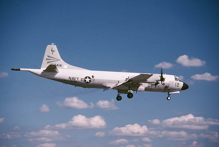 VP-62 (LT 12) P-3A (BuNo 153414) on approach to NAS Dallas, September 1984. Photographed by Keith Snyder. Repository: San Diego Air and Space Museum Archive